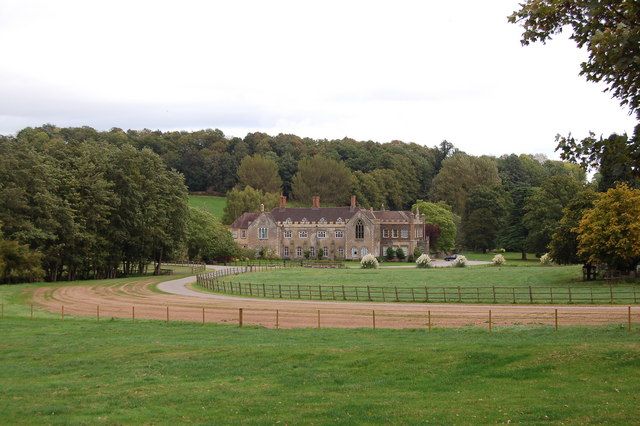 Flaxley Abbey, Gloucestershire